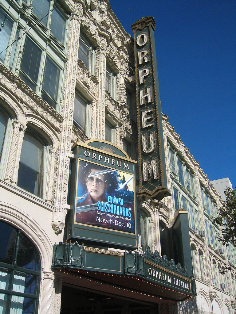 The historic Orpheum Theater, Theater facade, San Francisco.